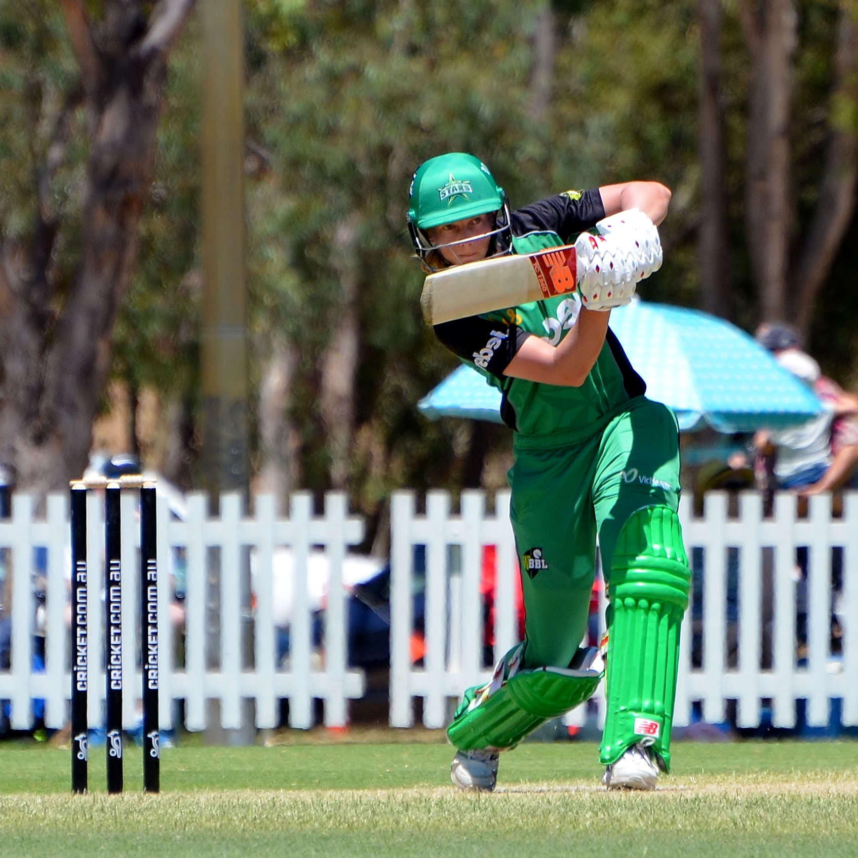 Meg Lanning batting for Melbourne Stars (WBBL) against Perth Scorchers (WBBL) at Lilac Hill Park, Perth, Australia.